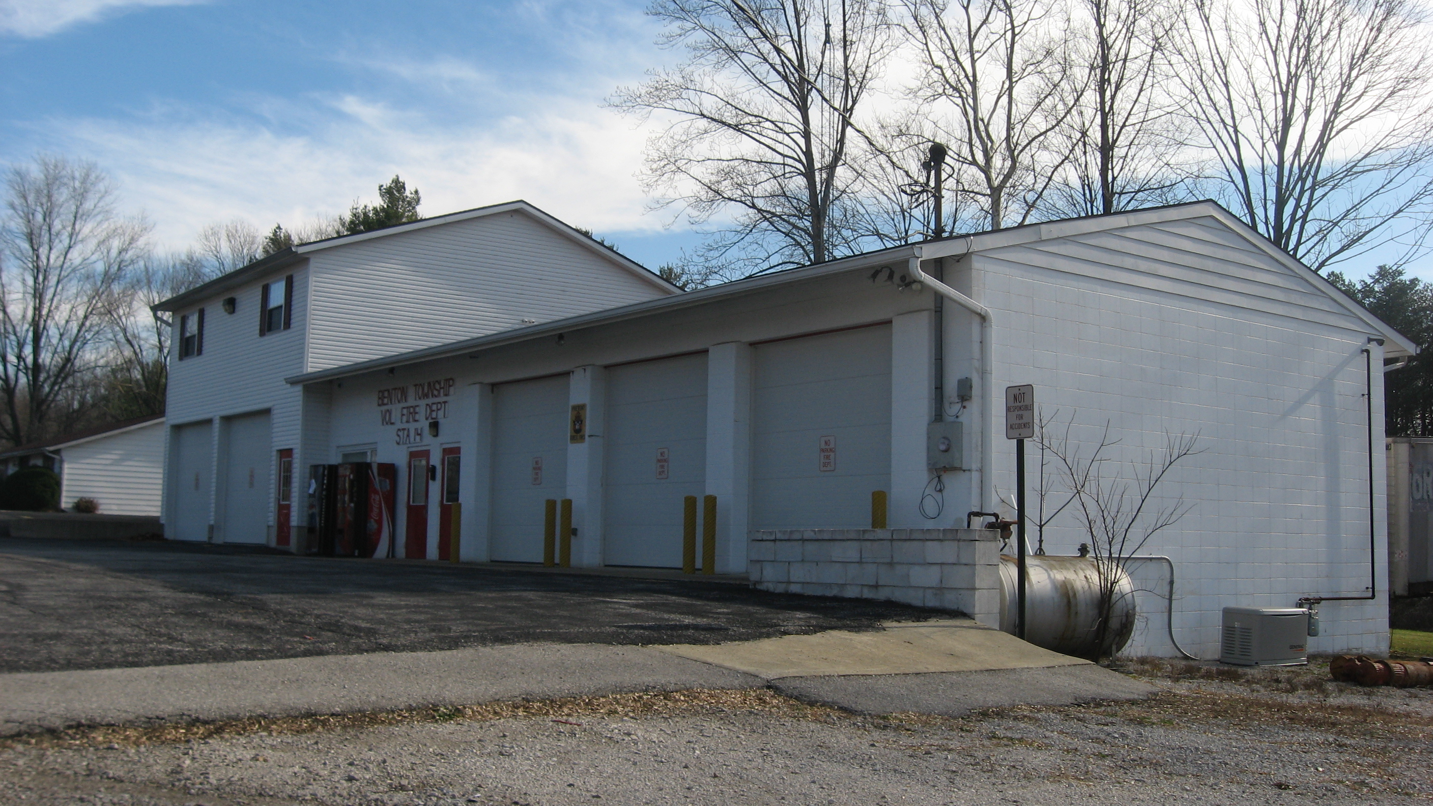 Front of the Benton Township Fire Department, located at about 7600 E. State Road 45 in Unionville, Indiana, United States. It was built in 1985.